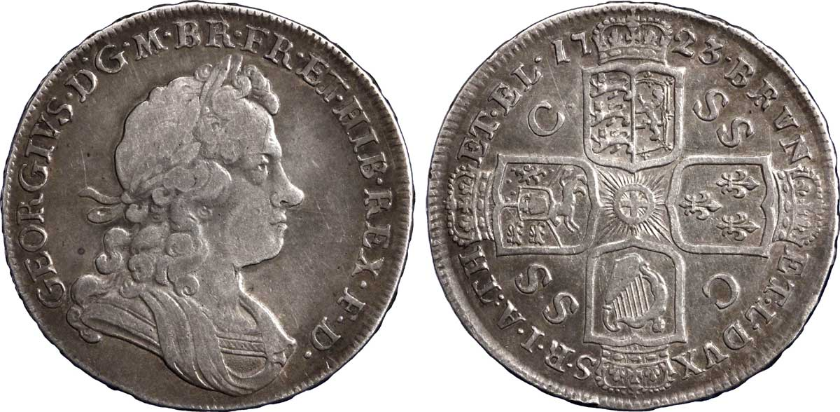 Un demi crown à l'effigie de Georges Ier, 1723